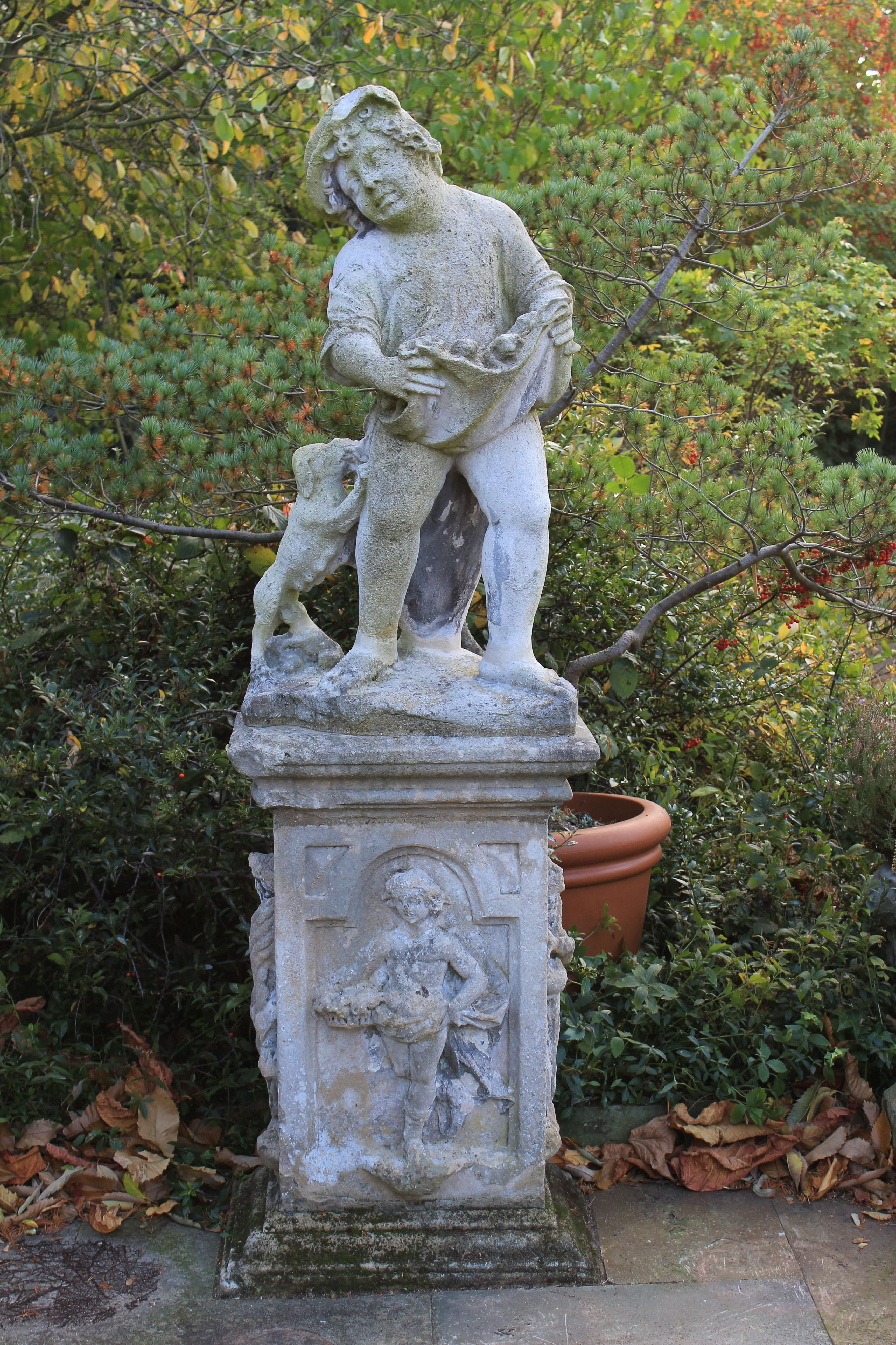 Statue on the lake terrace at Myddelton House Gardens, Enfield. • Myddelton House was formerly the home of E A Bowles the horticulturalist.